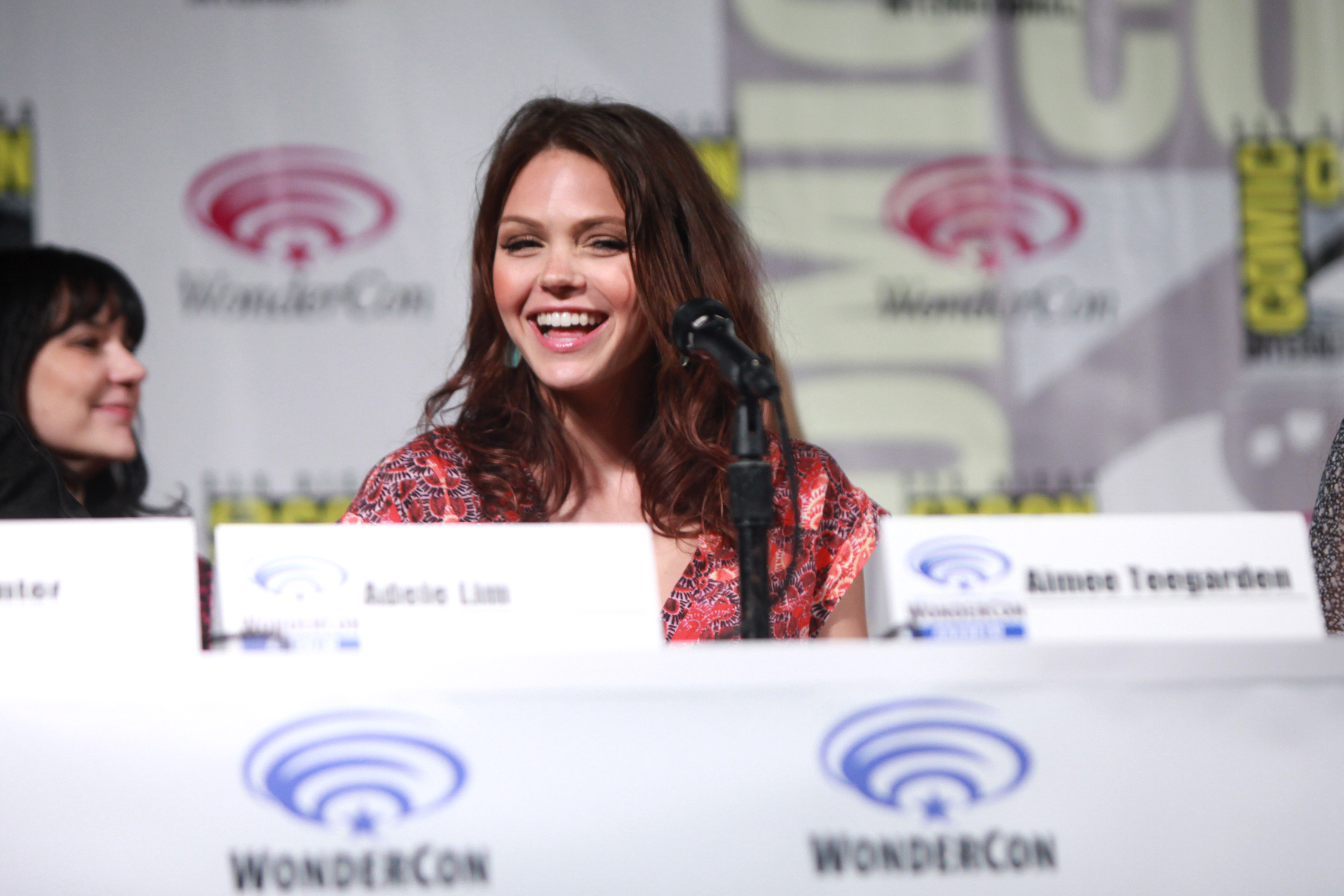 Aimee Teegarden speaking at the 2014 WonderCon, for "Star-Crossed", at the Anaheim Convention Center in Anaheim, California.